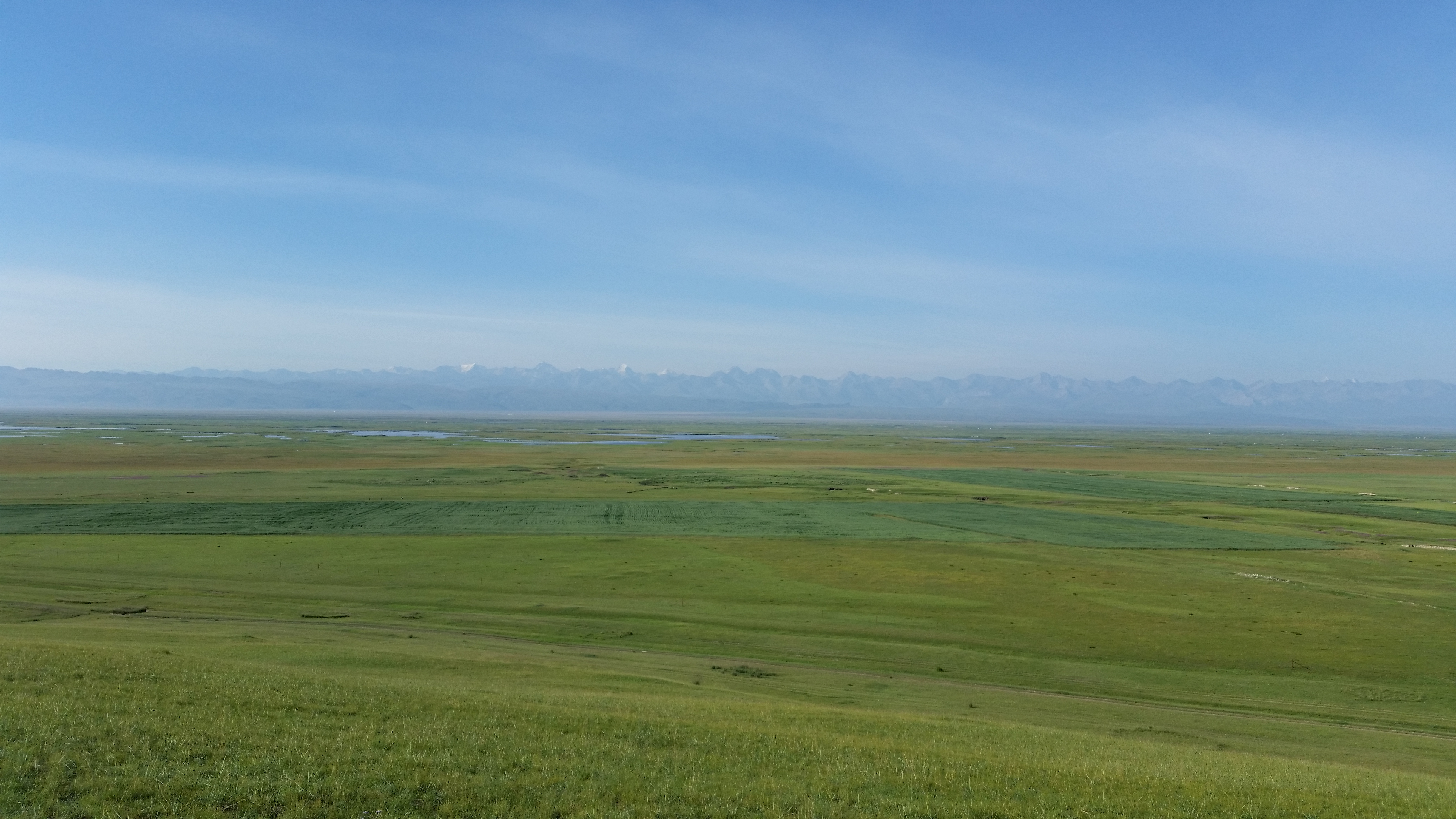 View over Bayan-Bulak grassland with cut-off lakes of river Kaidu.